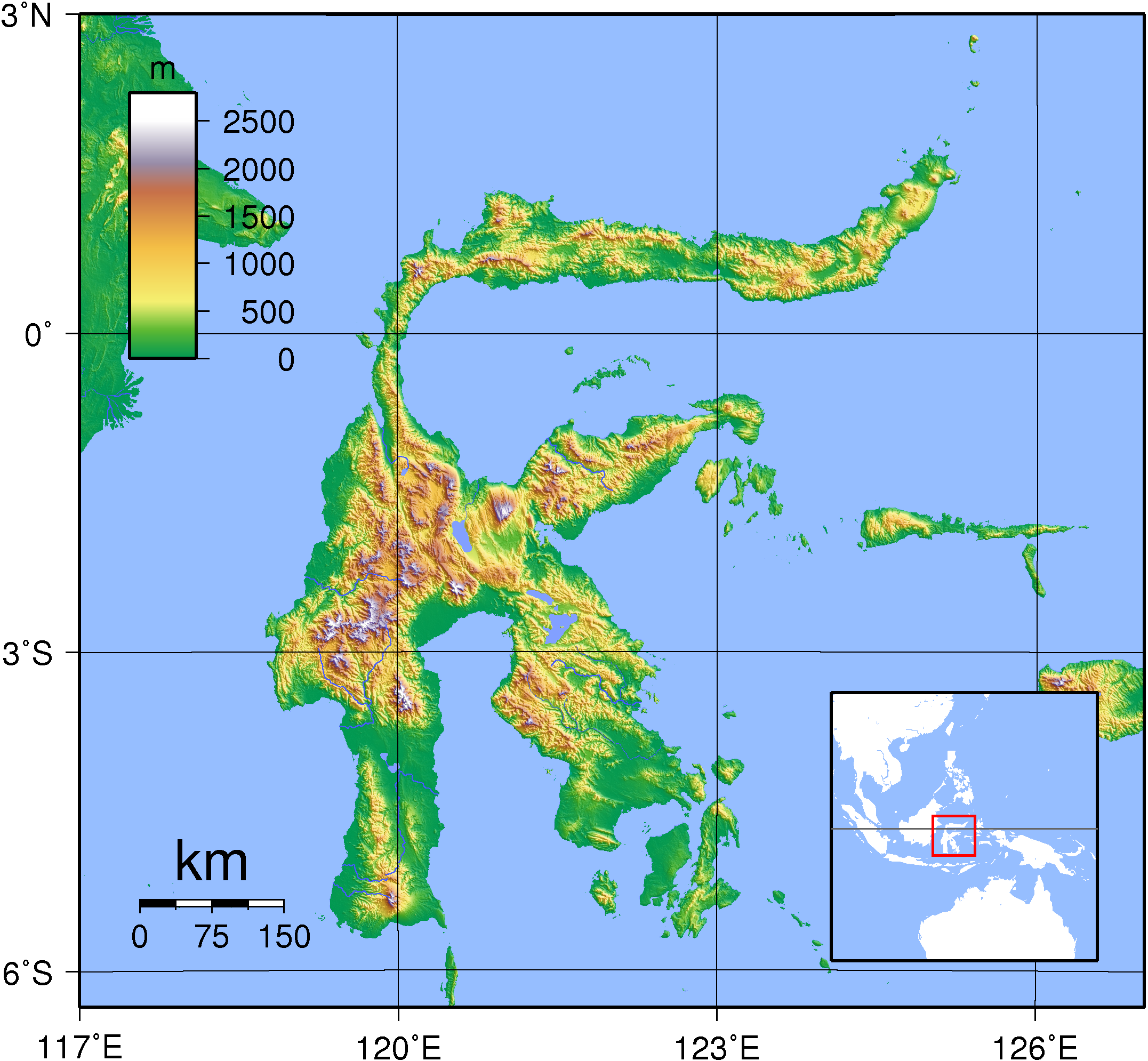 Relief (hypsometric) map of Sulawesi. Created with GMT from publicly released SRTM data. For locator version, see Image:Sulawesi_Locator_Topography.png